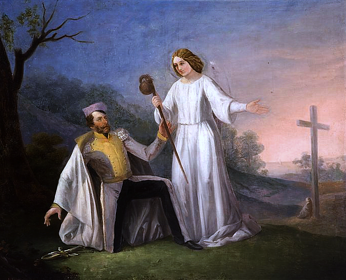 Allegory of Fall of the November Uprising